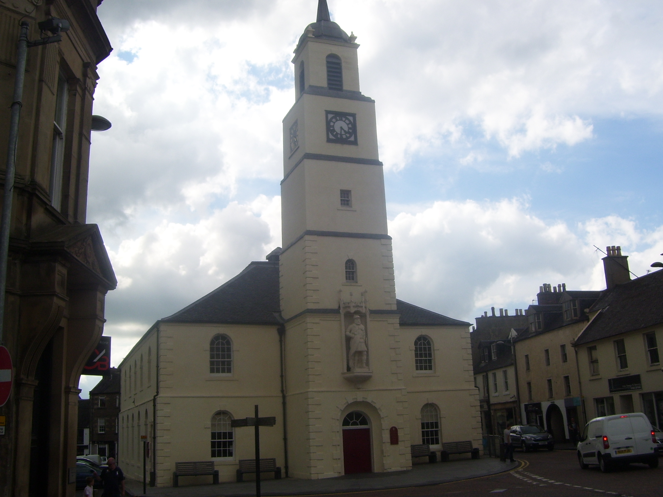 St Nicholas' Kirk, Lanark, Scotland